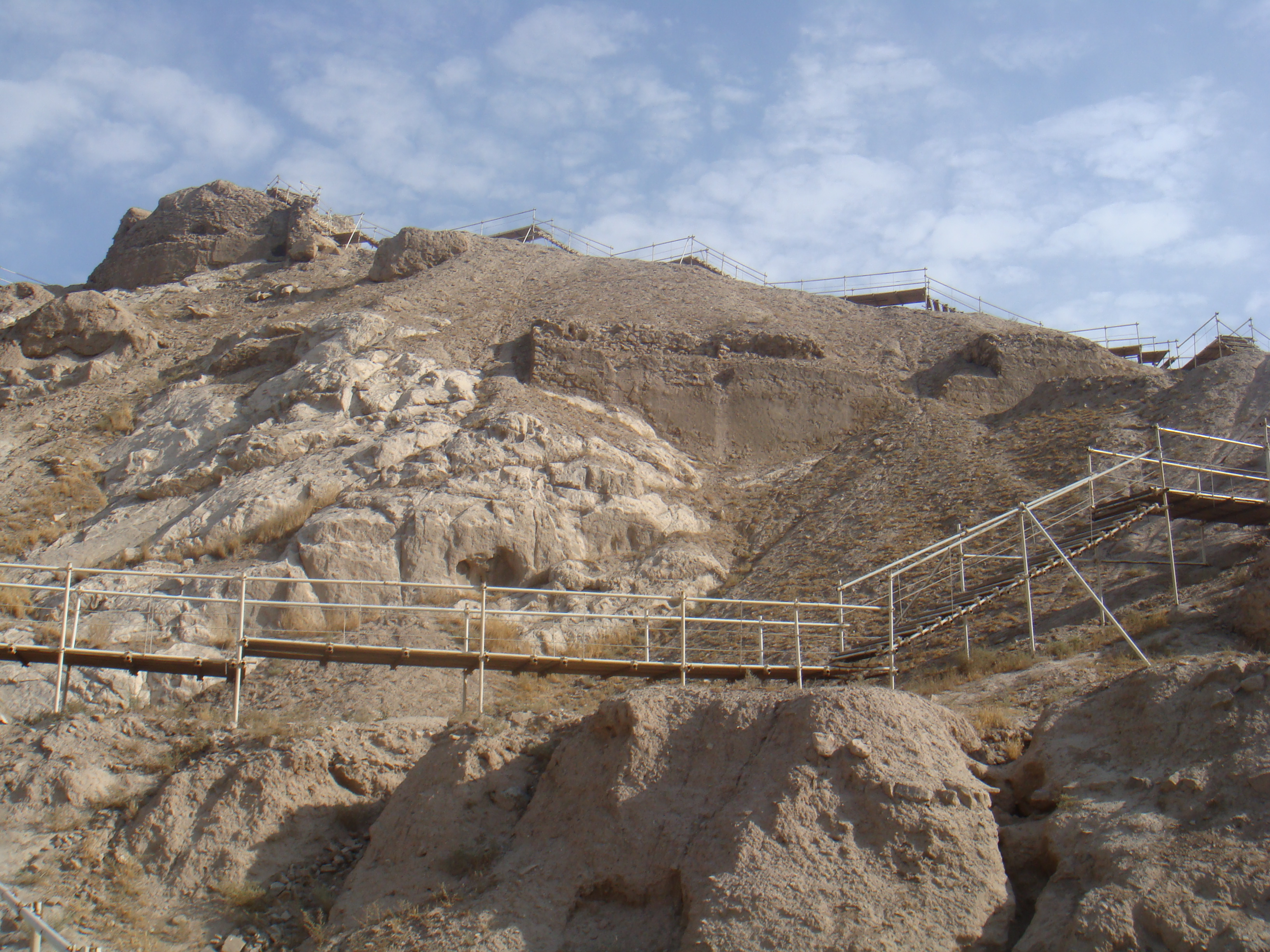 Kuh-e Safaiyeh and Fort Rashkan in Ray, TehranHrvatski: Planina Kuh-e Safaije i tvrđava Raškan u Raju, Teheran